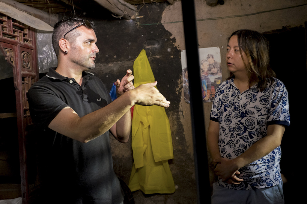 Sunken Plum (Dir. Roberto F. Canuto & Xu Xiaoxi), Trilogy Invisible Chengdu. Behind the Scene picture with director Roberto F. Canuto and actor Gu Xiang.